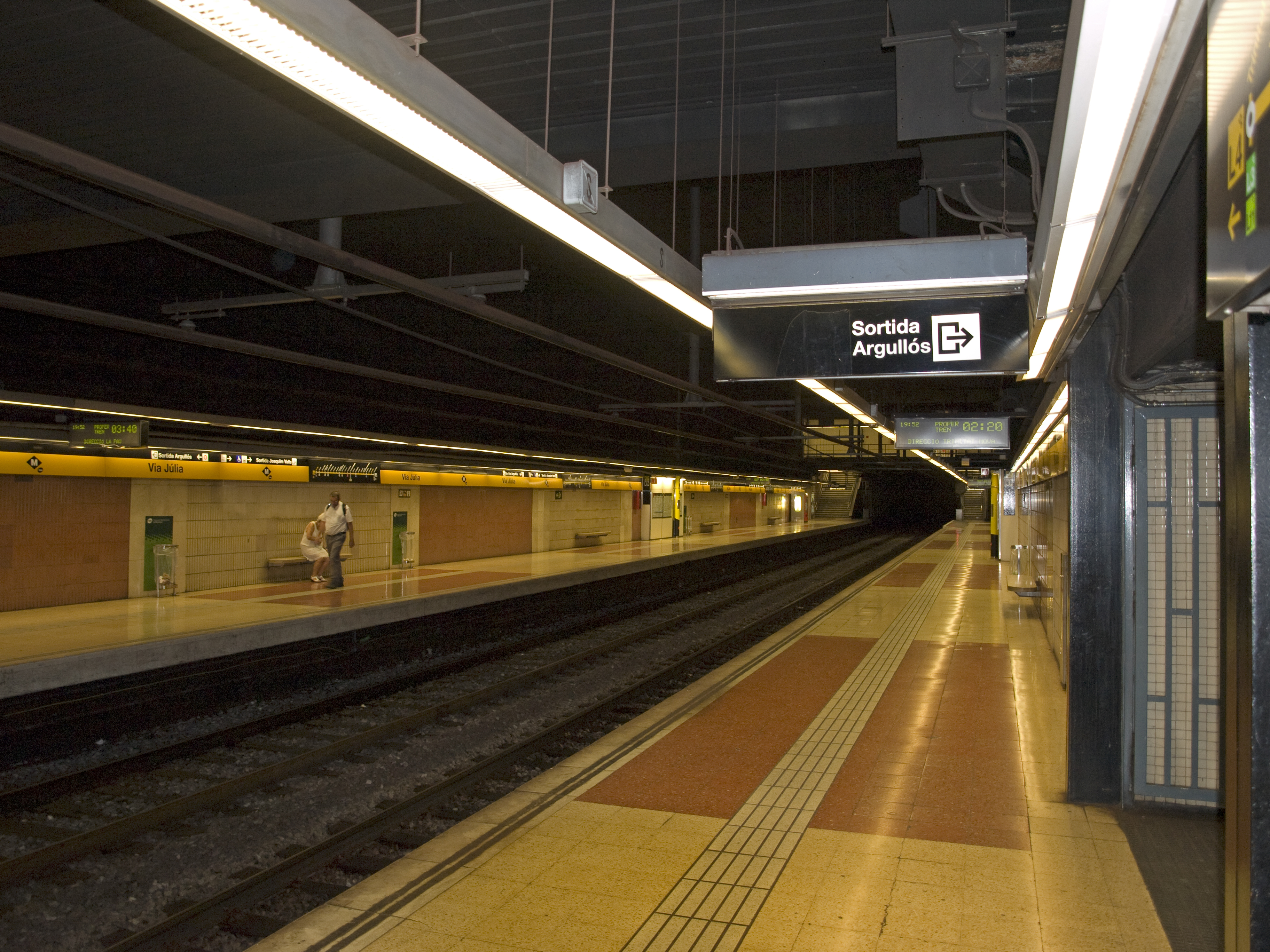 Via Júlia station platforms, lime L4, Barcelona Metro. The photo is taken from the northbound platform (direction Trinitat Nova).